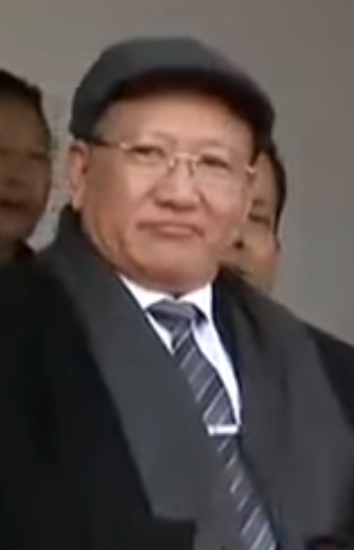 T.R. Zeliang at the Hornbill Festival